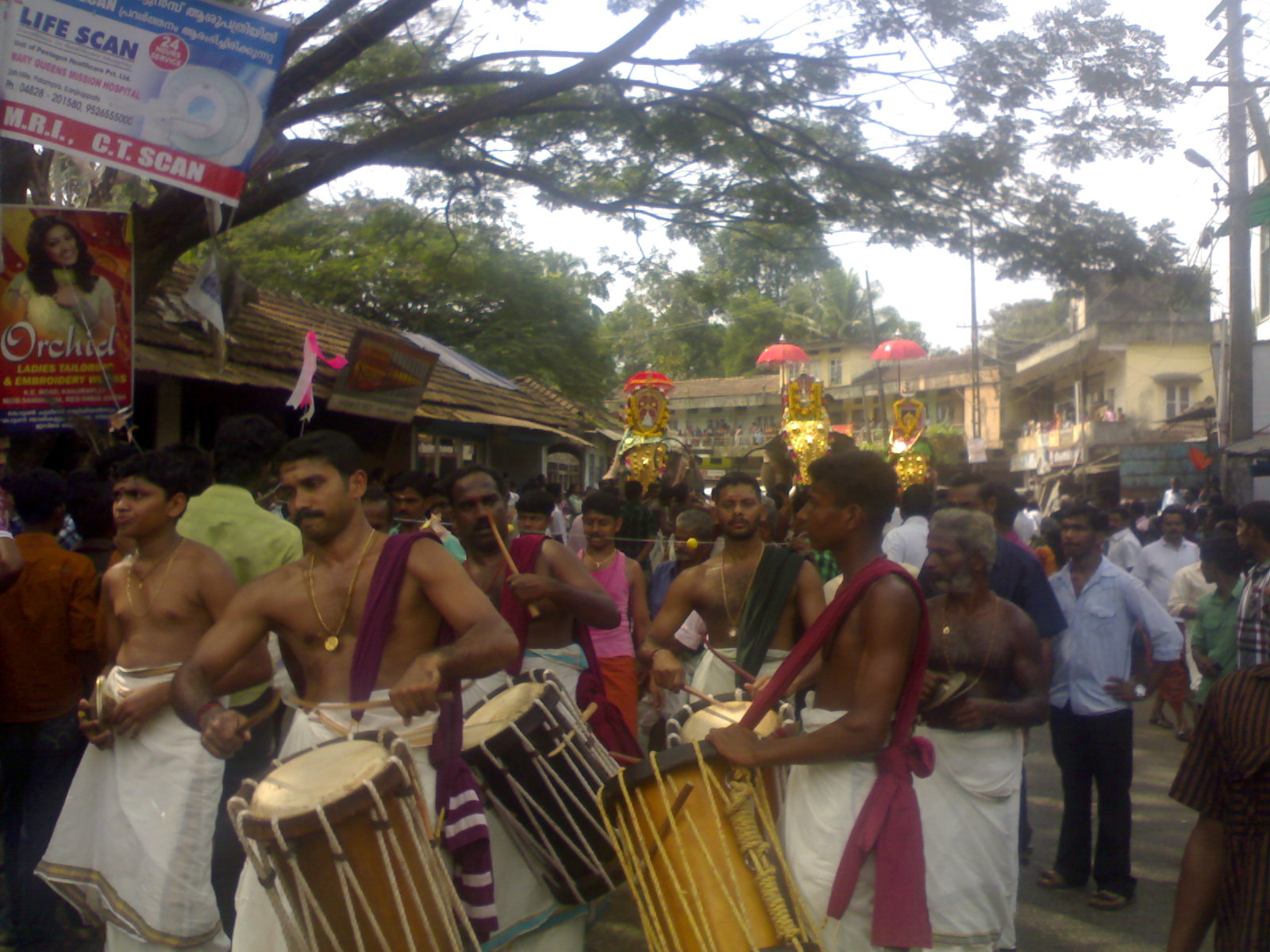 meenakshi temple ultsav possession